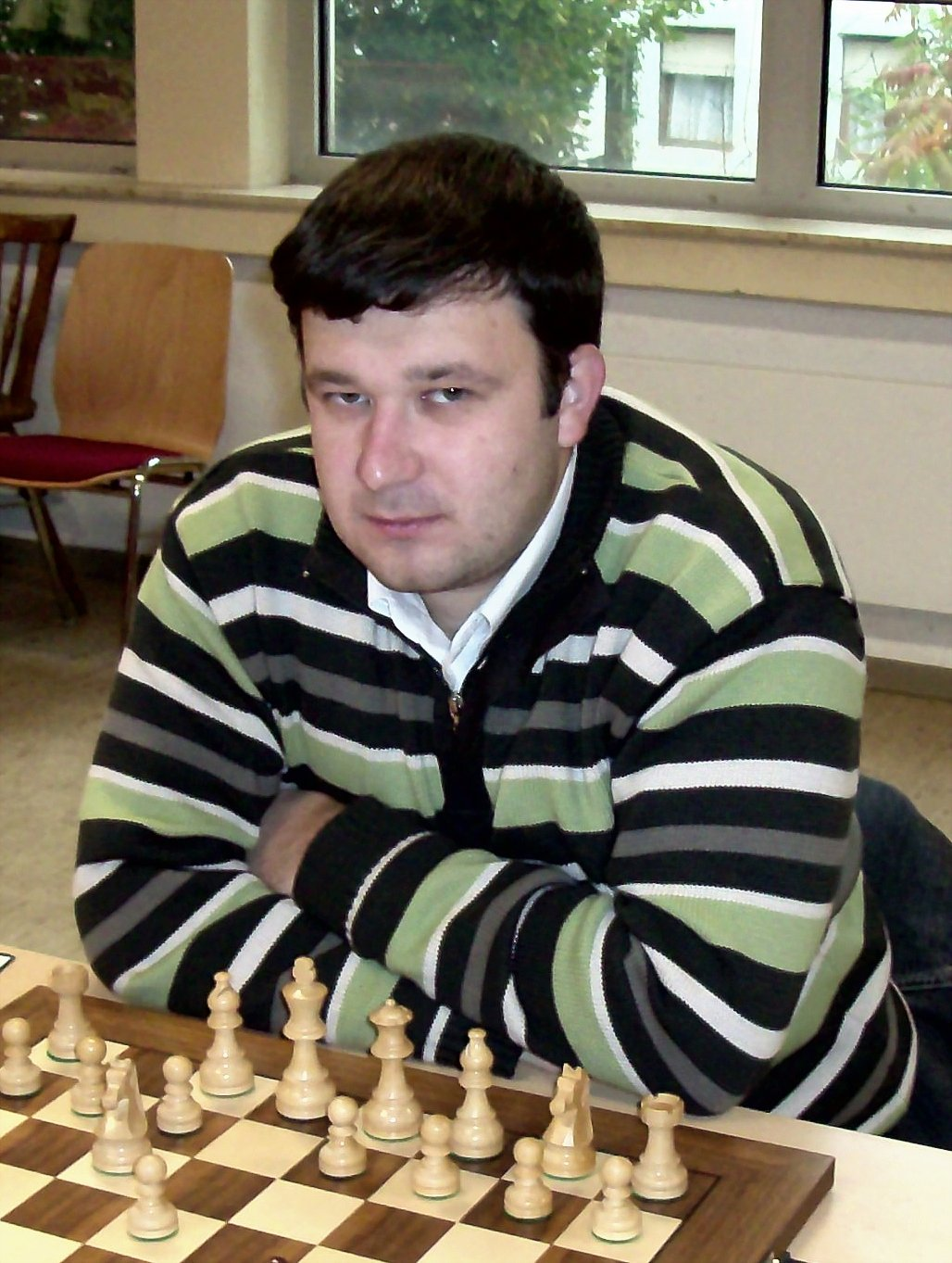 Sergei Fedorchuk, chess grandmaster from Ukraine